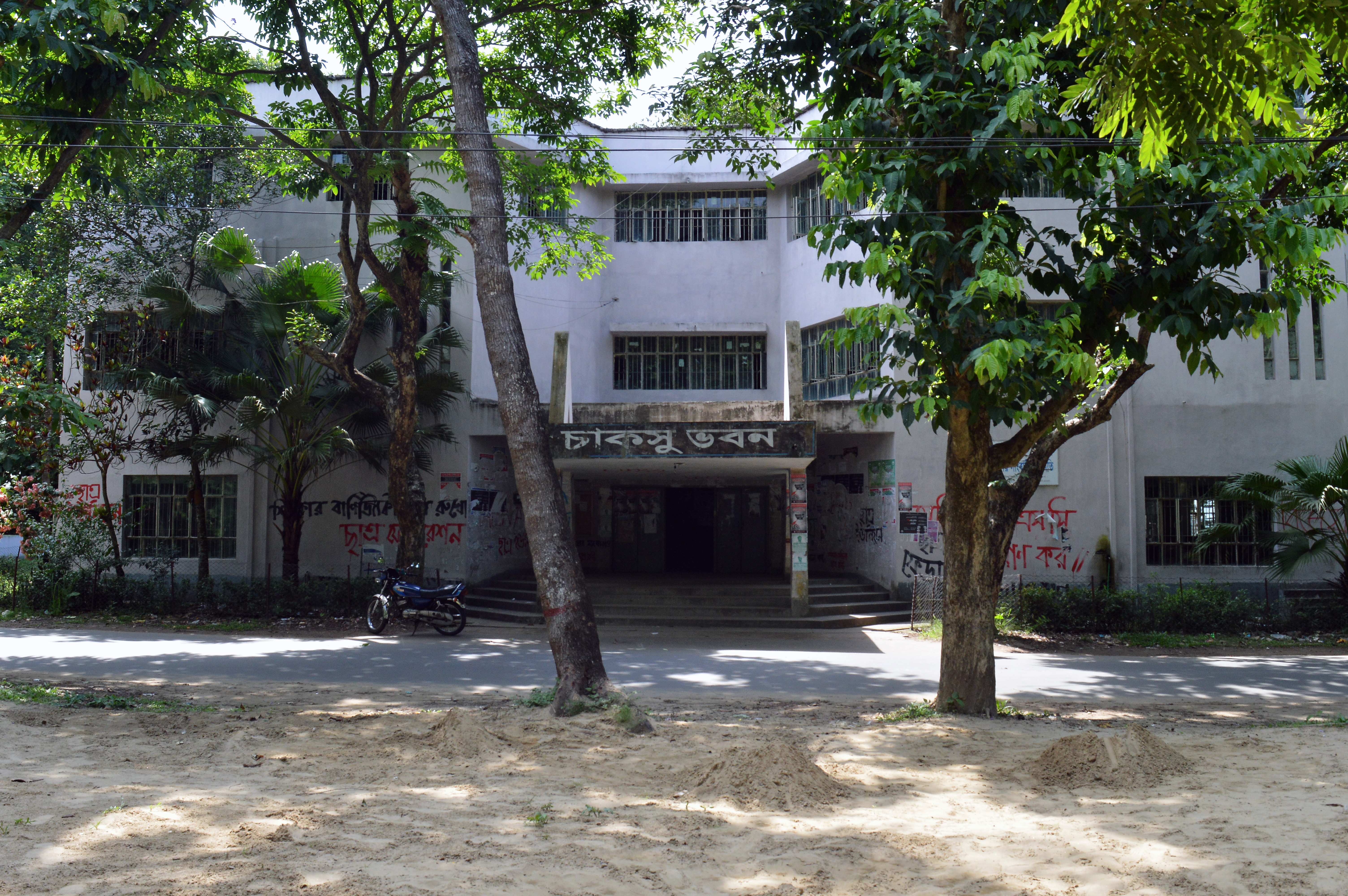 Chittagong University Central Student Union